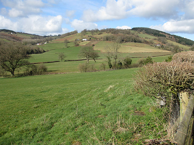 Pastures by the Black Brook Looking towards White House Farm and Graig Syfyrddin.